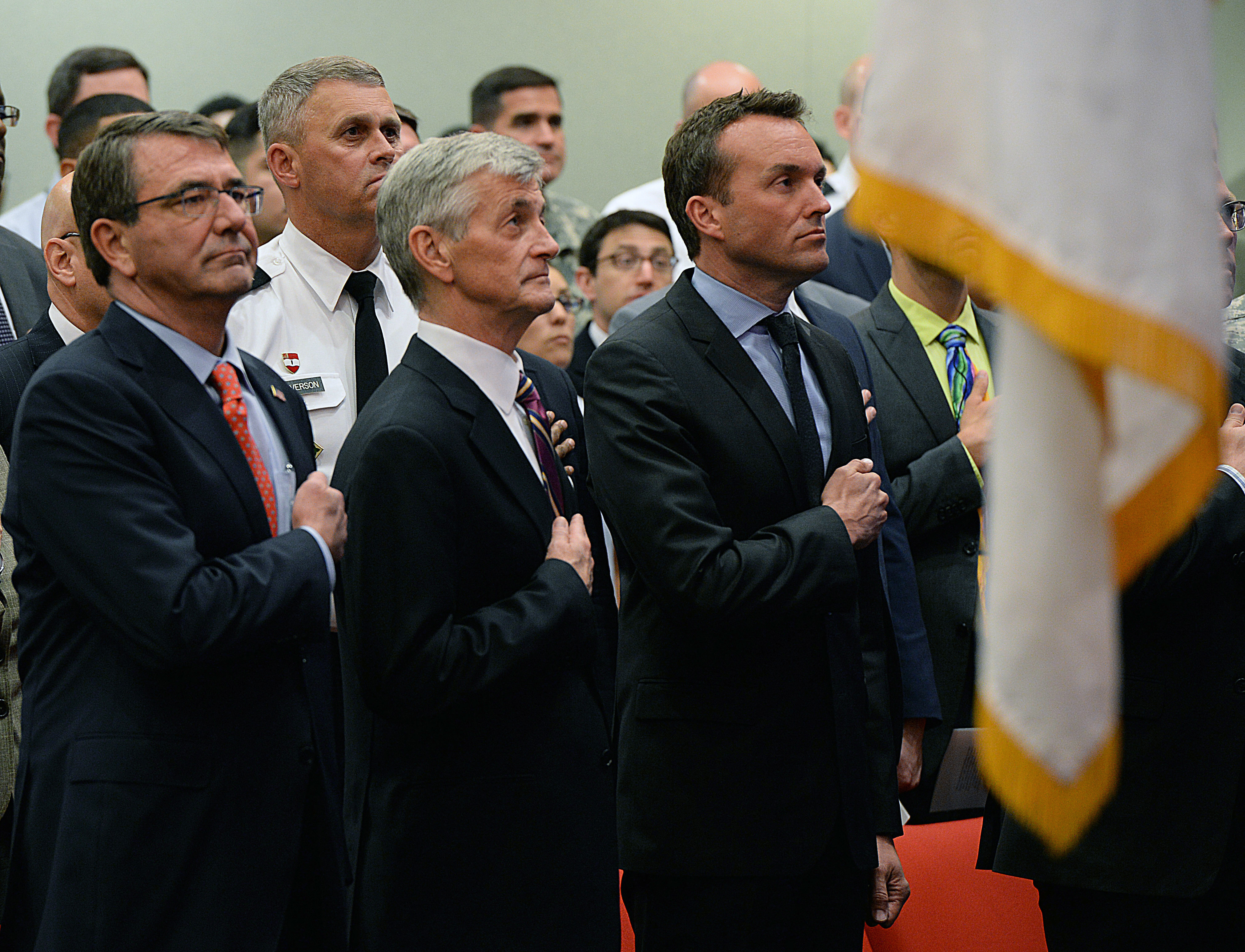 Secretary of Defense Ash Carter (left), Secretary of the Army John McHugh (center) and Chief of Staff of the Department of Defense Eric Fanning (right) render honors at the LGBT Pride Month ceremony in the Pentagon Auditorium on June 9, 2015. (DOD photo by Sgt. 1st Class Clydell Kinchen) (Released)